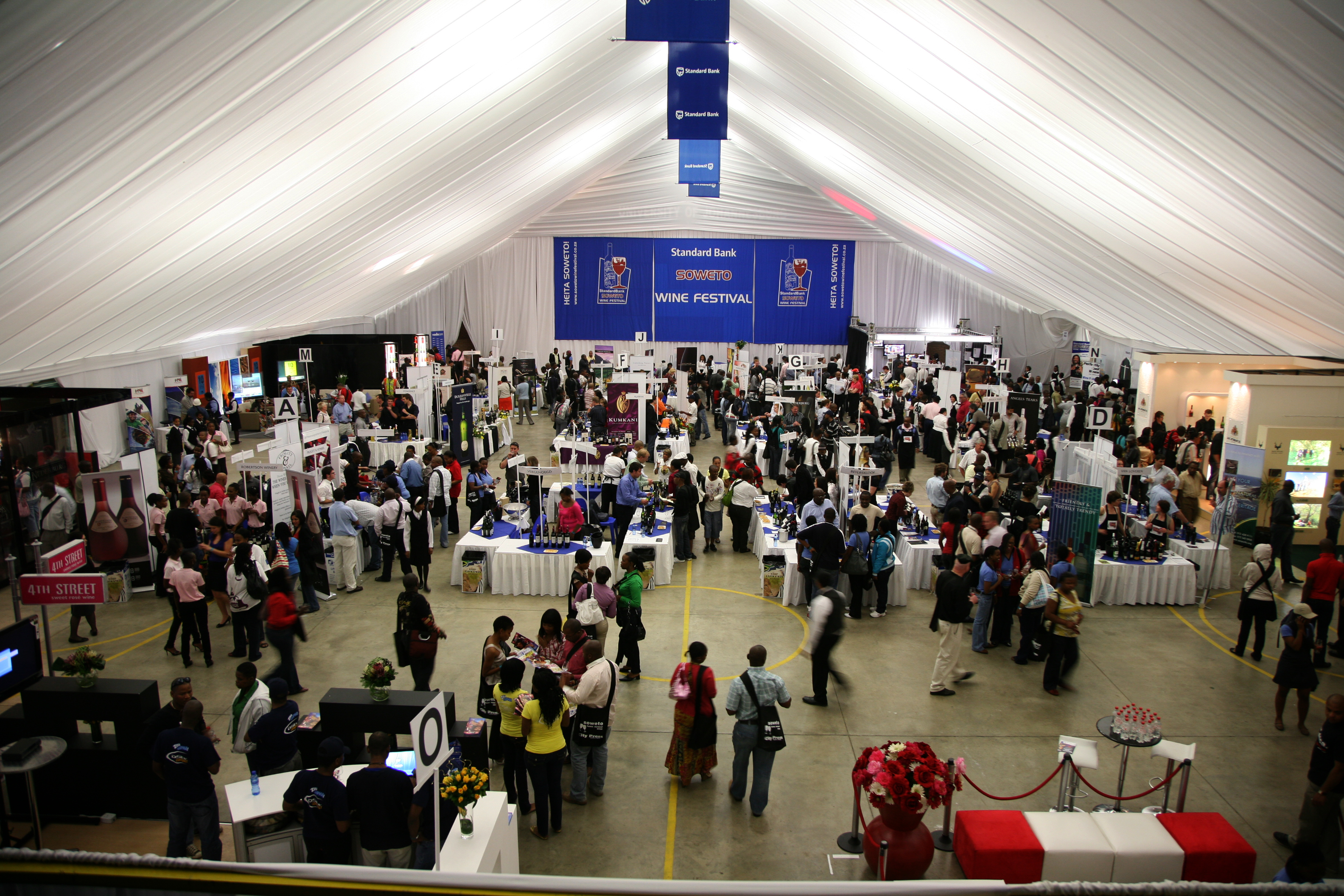 The 5th Standard Bank Soweto Wine Festival took place on the 4 and 5 September 2009 at the University of Johannesburg, Soweto Campus, attracting 5,525 festival guests to taste over 800 South African wines.